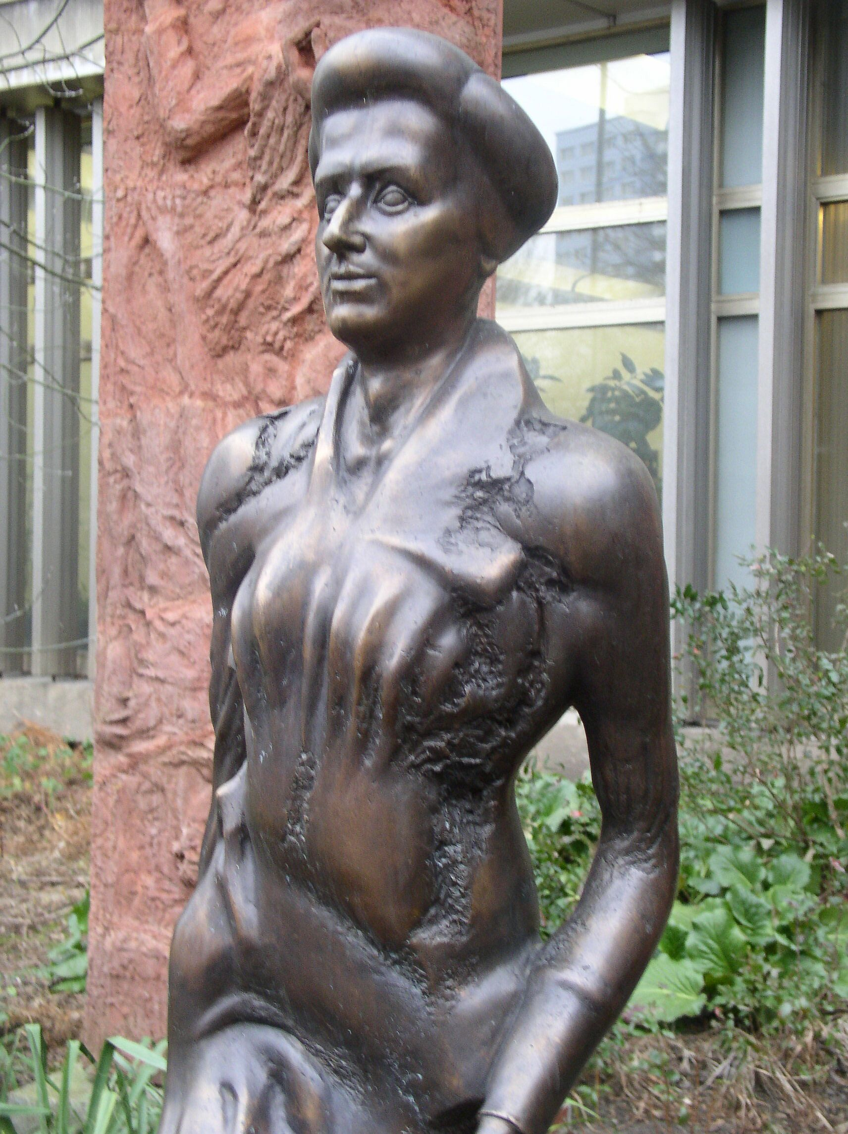 Sculpture of Rosa Luxemburg, made by Rolf Biebl, standing in front of the Neues Deutschland building, Franz-Mehring-Platz, Friedrichshain, Berlin.